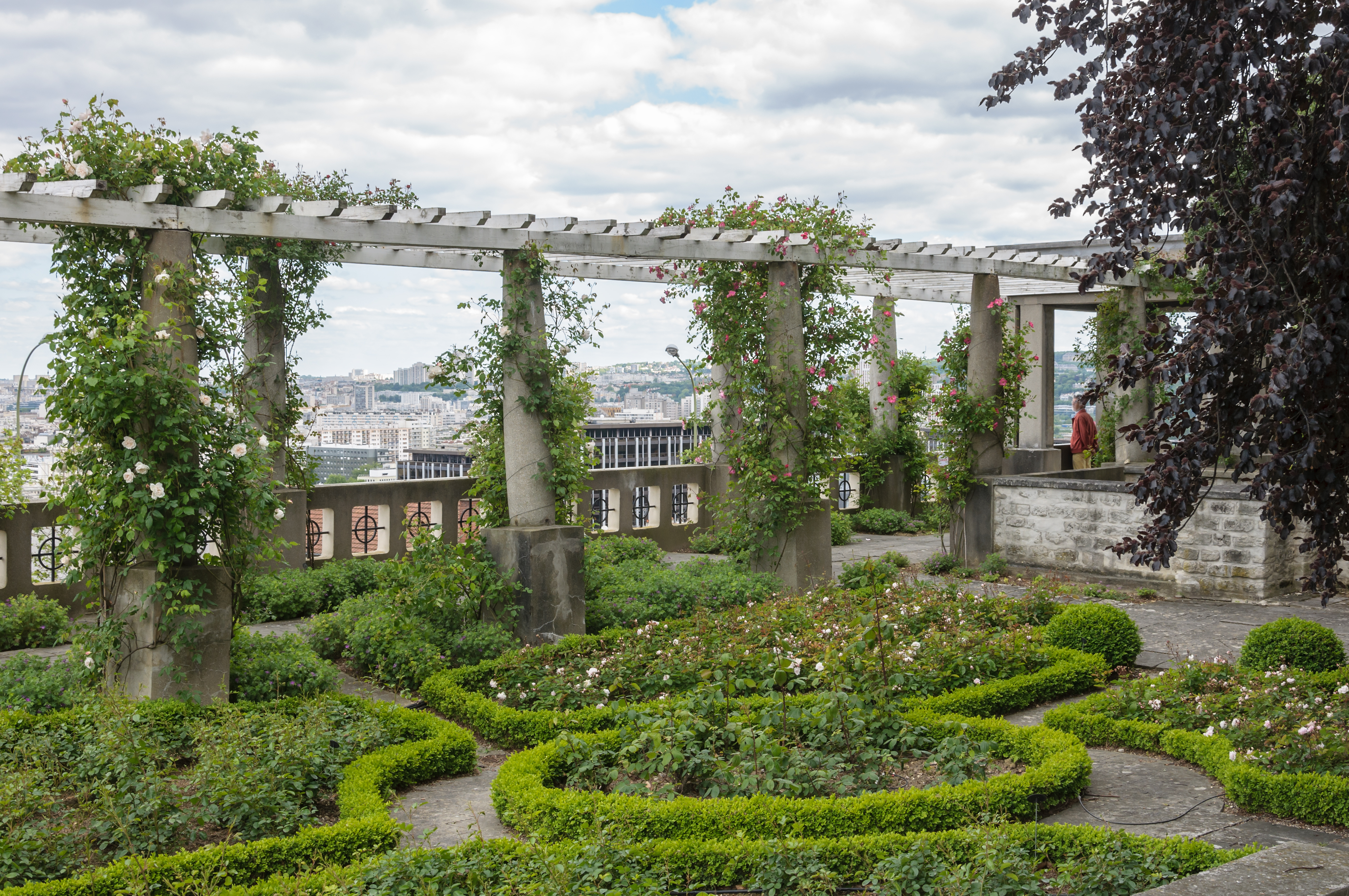 The Stern garden, created by Jean-Claude Nicolas Forestier in 1927 in Saint-Cloud, Hauts-de-Seine, France. .